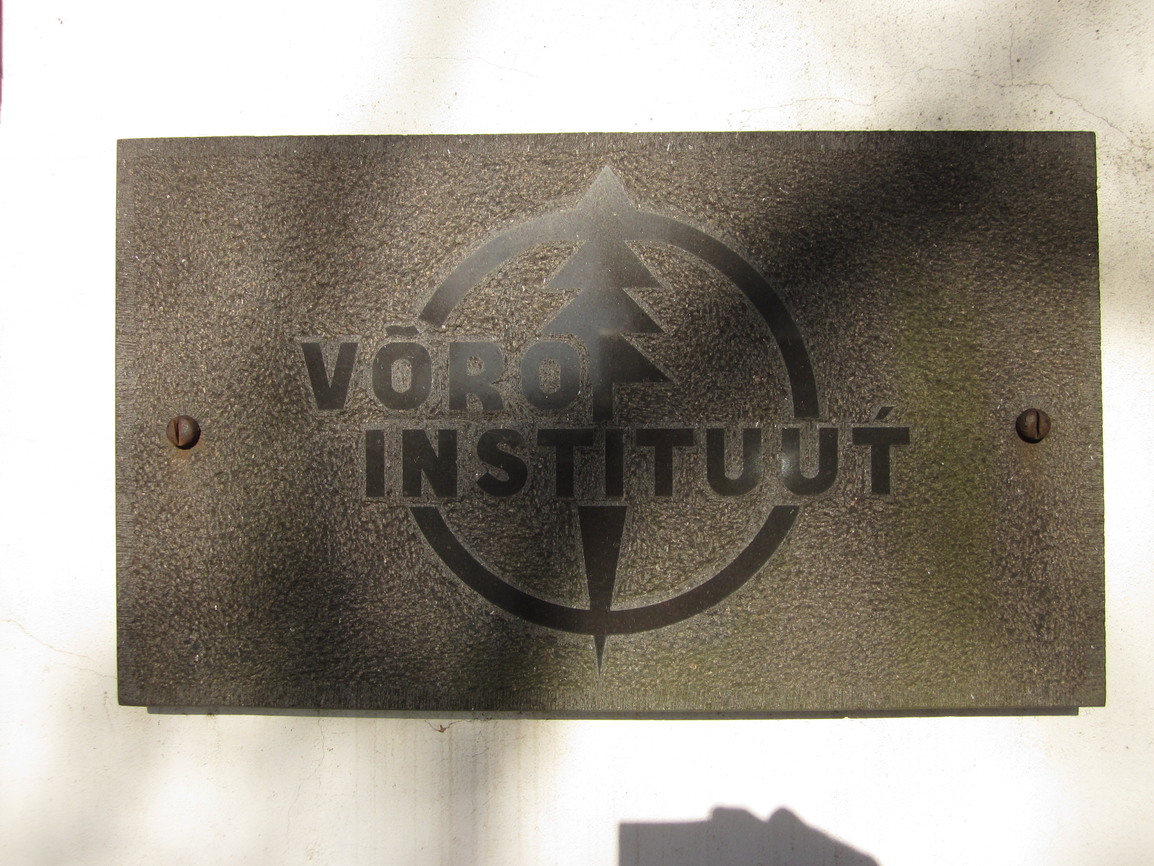 Võro Institute.